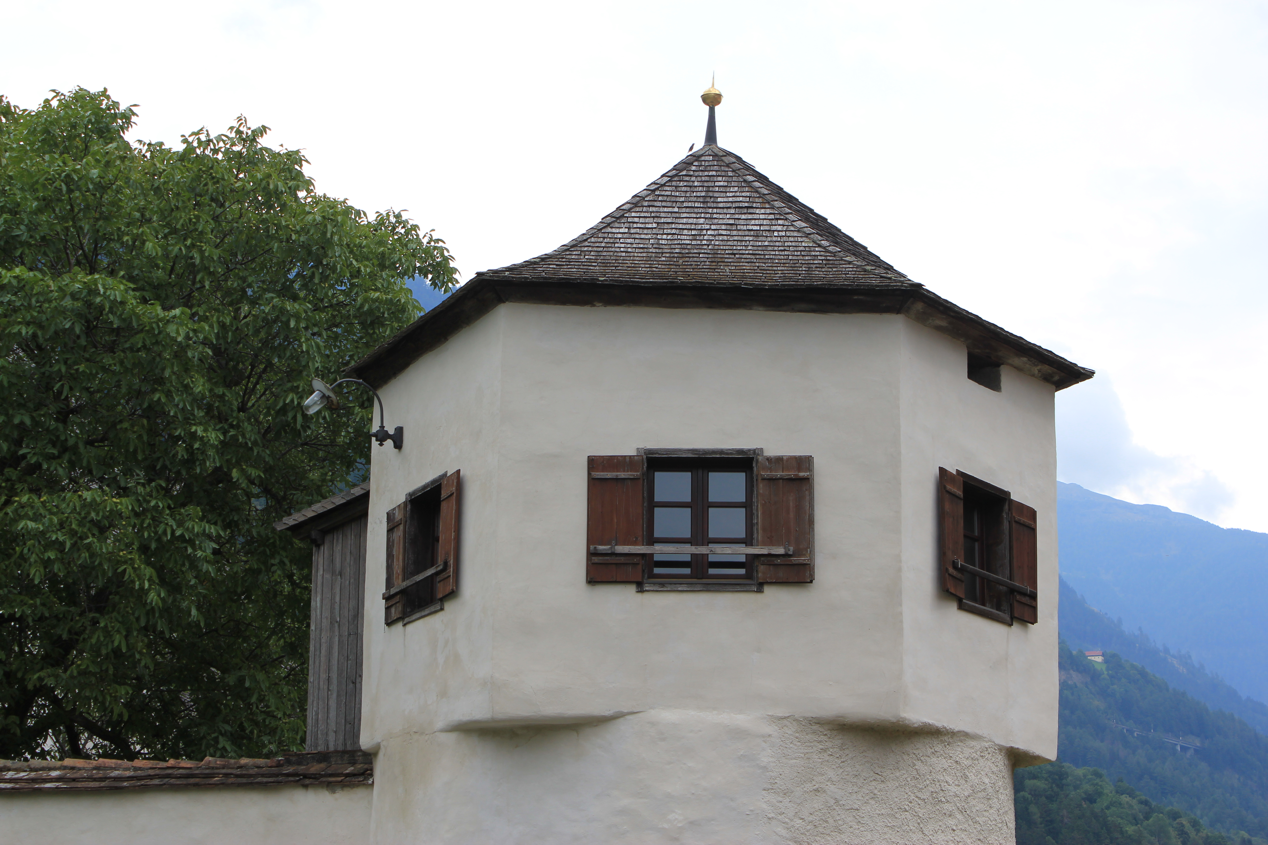 Parish church in Obervellach - Tower